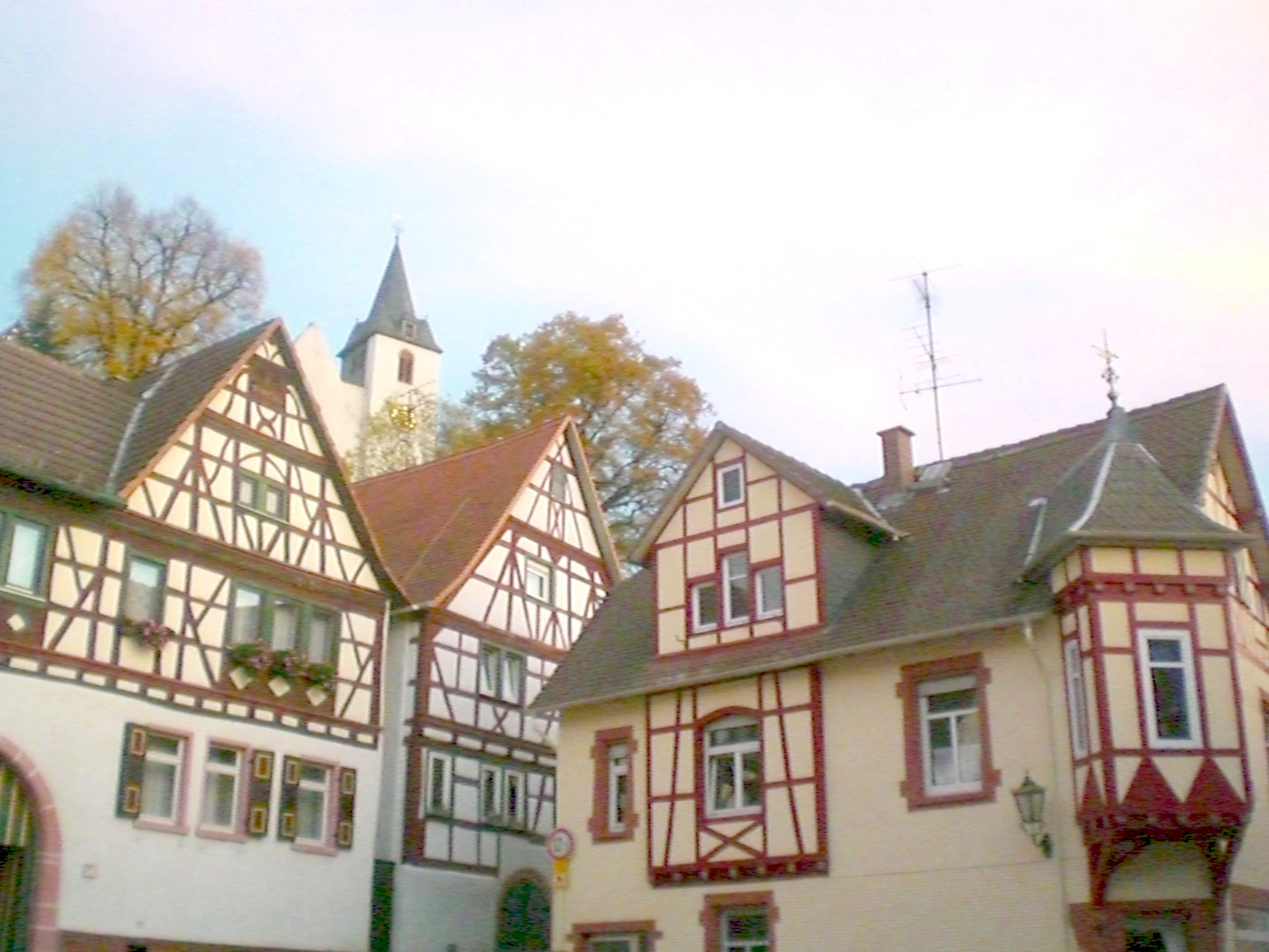 Historical timber framed houses in Zwingenberg, Germany